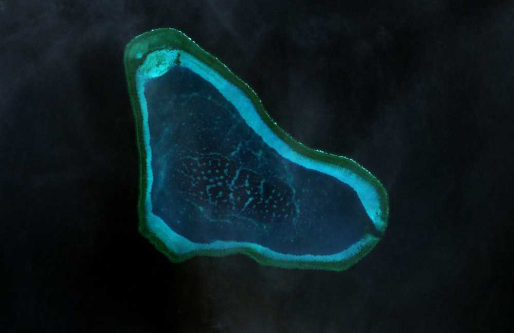 Landsat 7 image of Scarborough Shoal in the West Philippine Sea